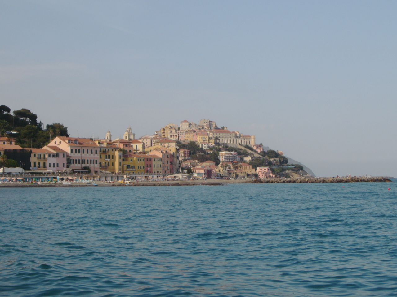 Porto Maurizio in Imperia, Italy.